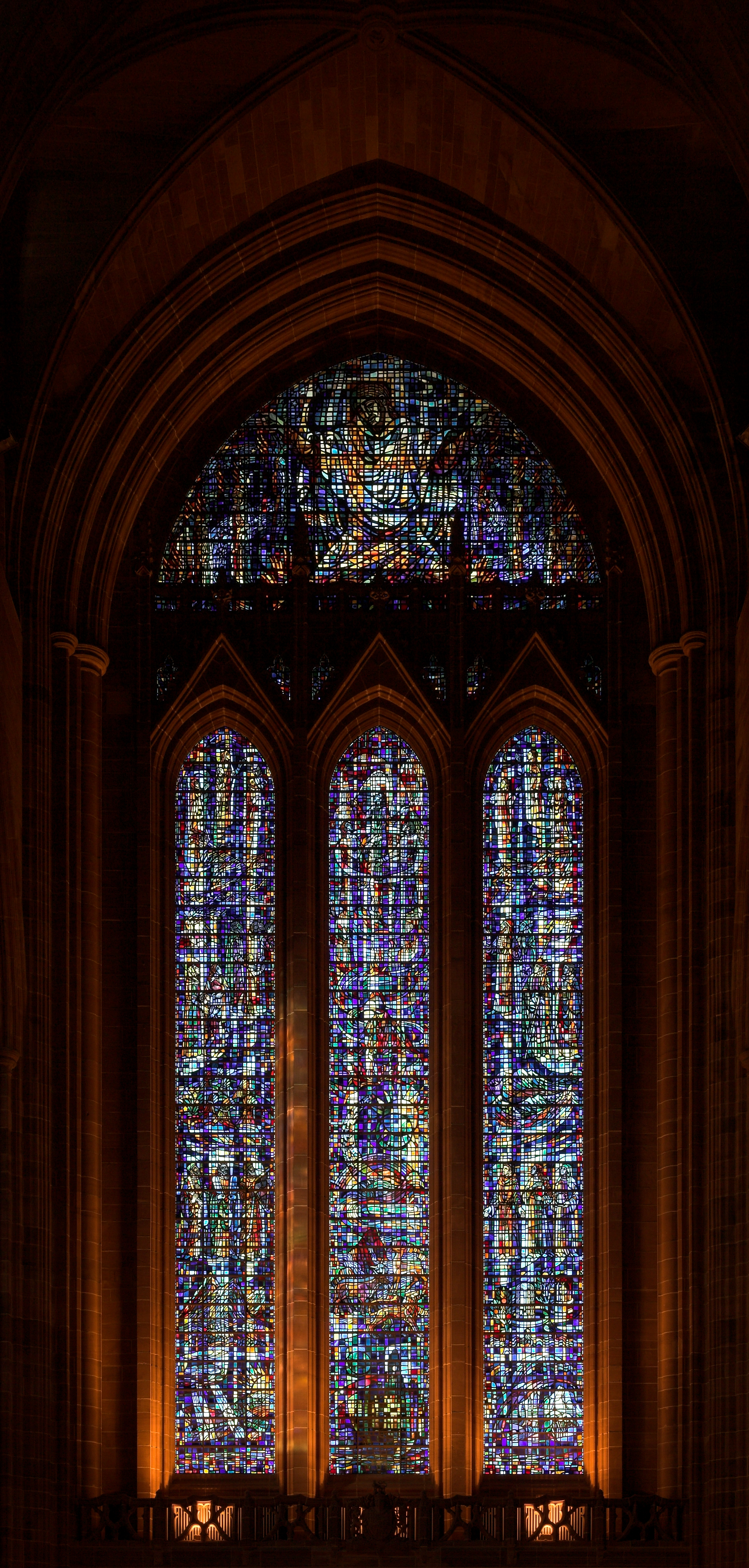 Liverpool Anglican Cathedral stained glass window. Canon EOS 20D with 17-85 IS USM lens @ 47mm, f/13 1/3 sec, ISO 200.